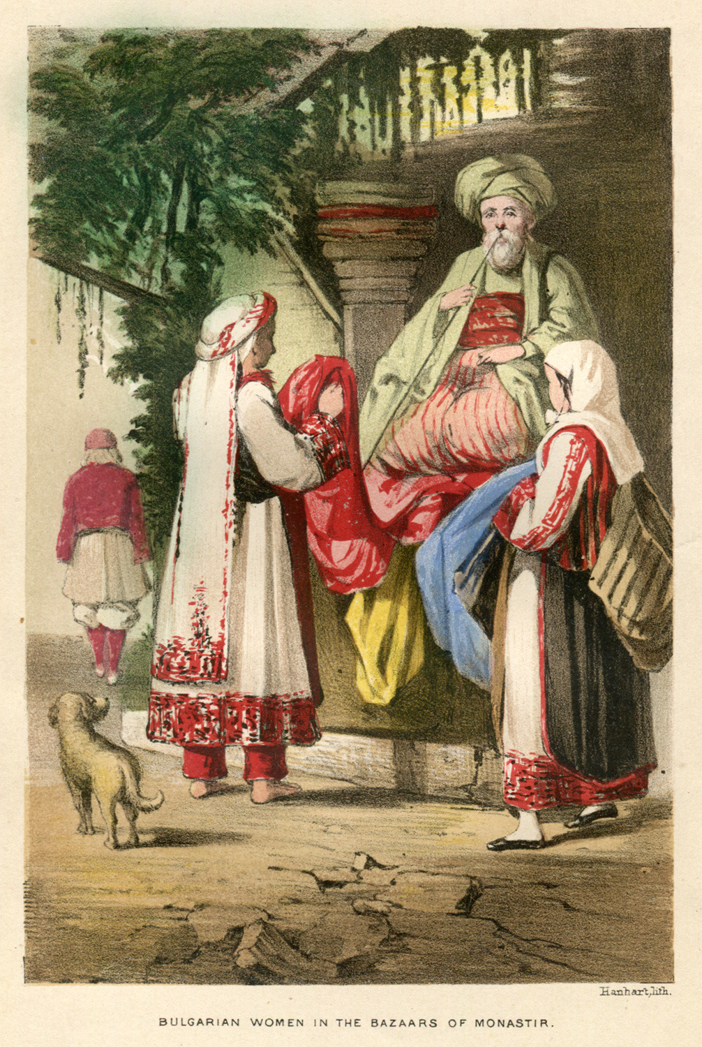 Bulgarian women in the bazaars of Monastir - Walker Mary Adelaide - 1864